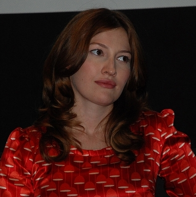 Kelly Macdonald at the New York Film Festival